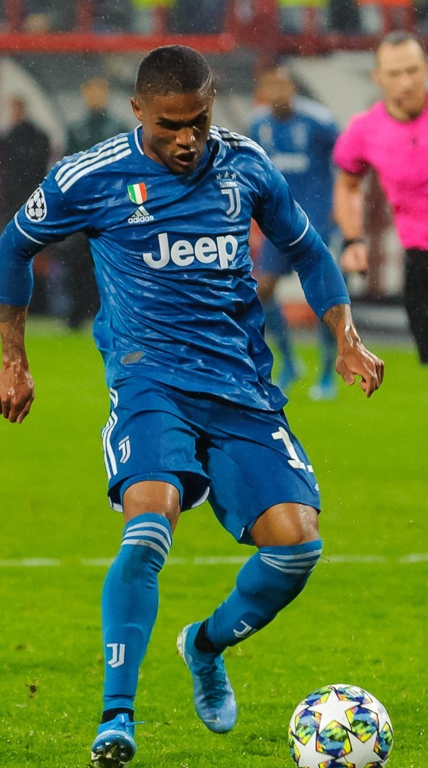 Douglas Costa in Juventus F.C. against FC Lokomotiv Moscow in match in Moscow (November 6, 2019)